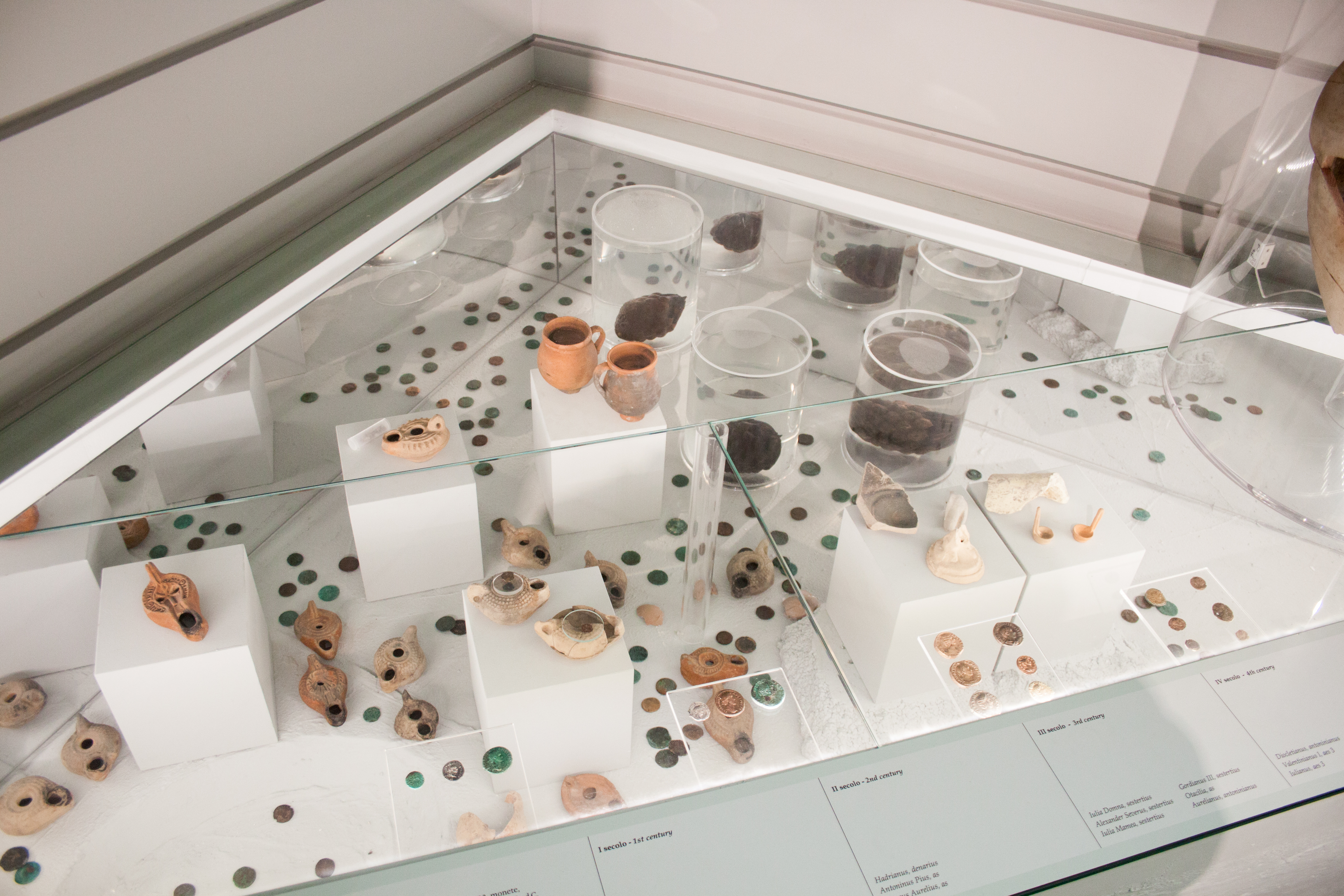 Finds from the fountain of Anna Perennalabel QS:Len,"Finds from the fountain of Anna Perenna"label QS:Lhu,"Áldozati tárgyak Anna Perenna forrásából"